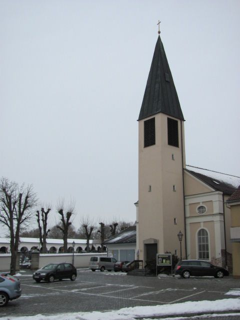 Reformations-Gedaechtnis-Kirche Eggenfelden (Protestant church of Eggenfelden, Bavaria)